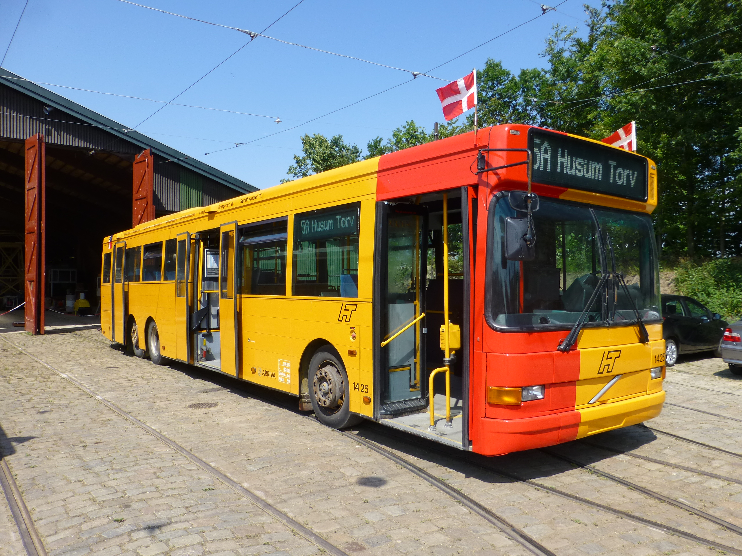 Old bus from Copenhagen Arriva 1425 on Sporvejsmuseet Skjoldenæsholm in Denmark.